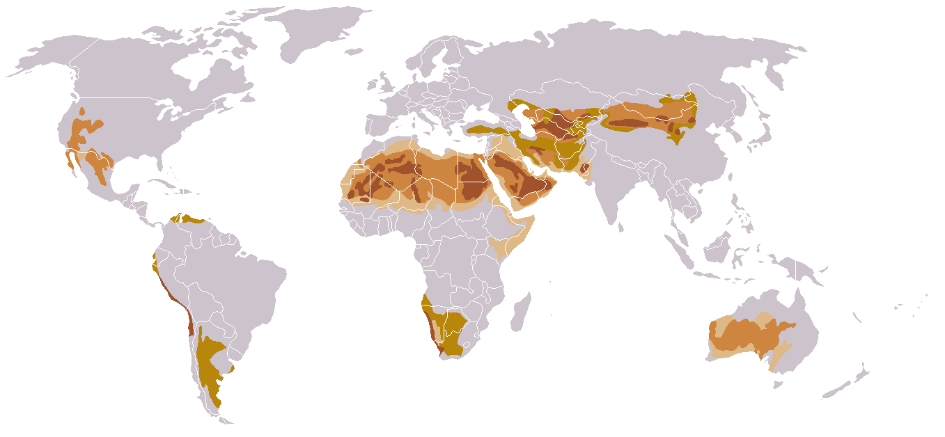 Prevalence of different types of desert on the planet.